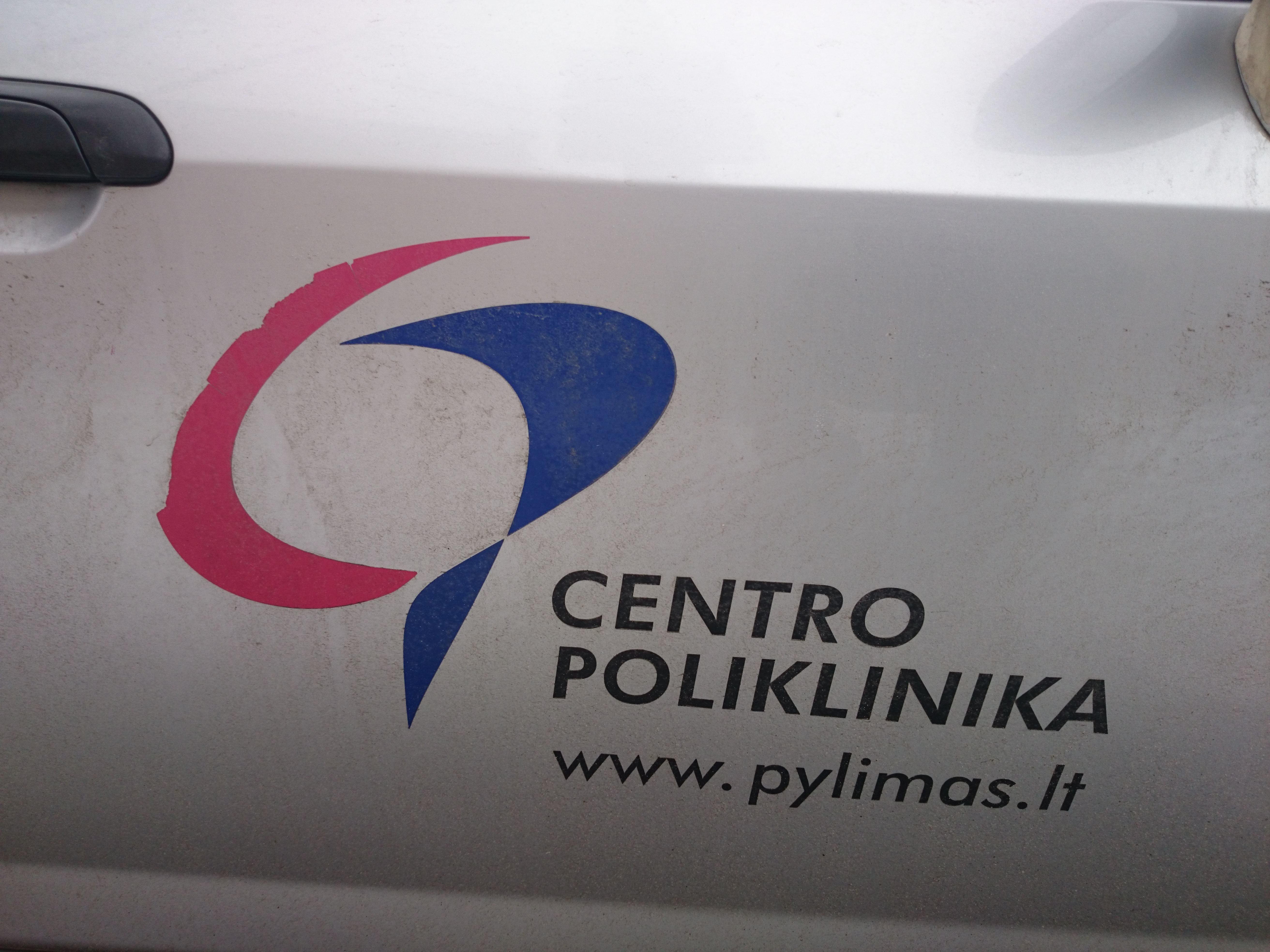 Centro p.